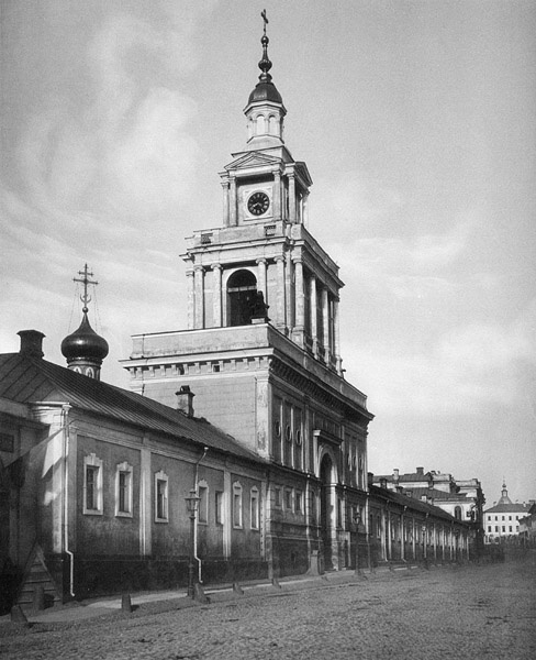 Moscow, Church of the Resurrection of Christ at Nikitsky Monastery. 1861-1868 by Michail Bykovsky, demolished in 1933.